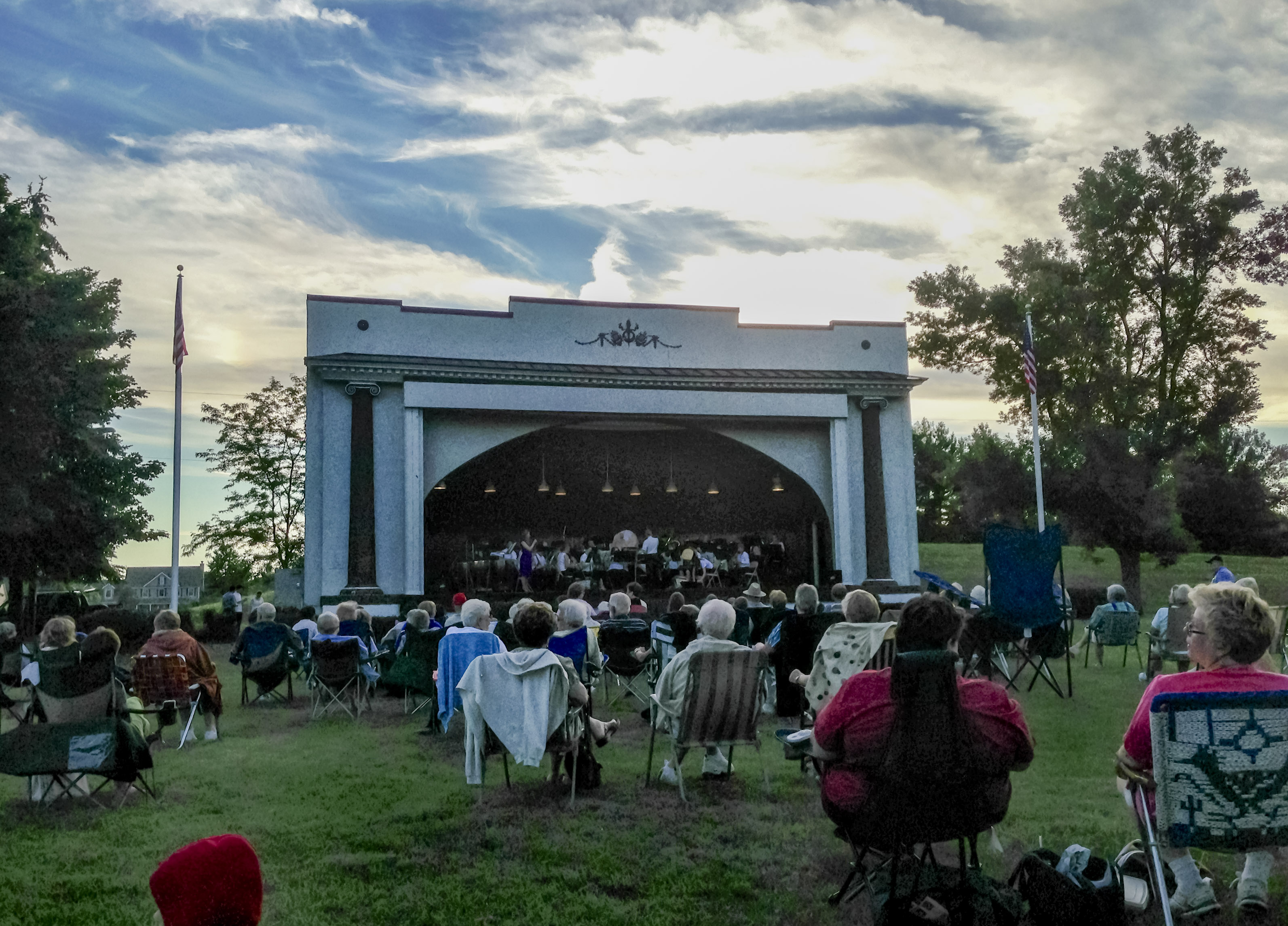 The Holton-Elkhorn Band performing at the Elkhorn Band Shell in Elkhorn, Wisconsin in July 12, 2013.